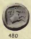 Greek coins and their parent cities (1902) Author: Ward, John, 1832-1912; Hill, George Francis, Sir, 1867-1948 Subject: Coins, Greek; Numismatics, Greek; Greece -- Description, geography; Italy -- Description and travel; Turkey -- Description and travel Publisher: London : Murray Possible copyright status: NOT_IN_COPYRIGHT Language: English Call number: AKB-0671 Digitizing sponsor: MSN Book contributor: Robarts - University of Toronto Collection: toronto Scanfactors: 7